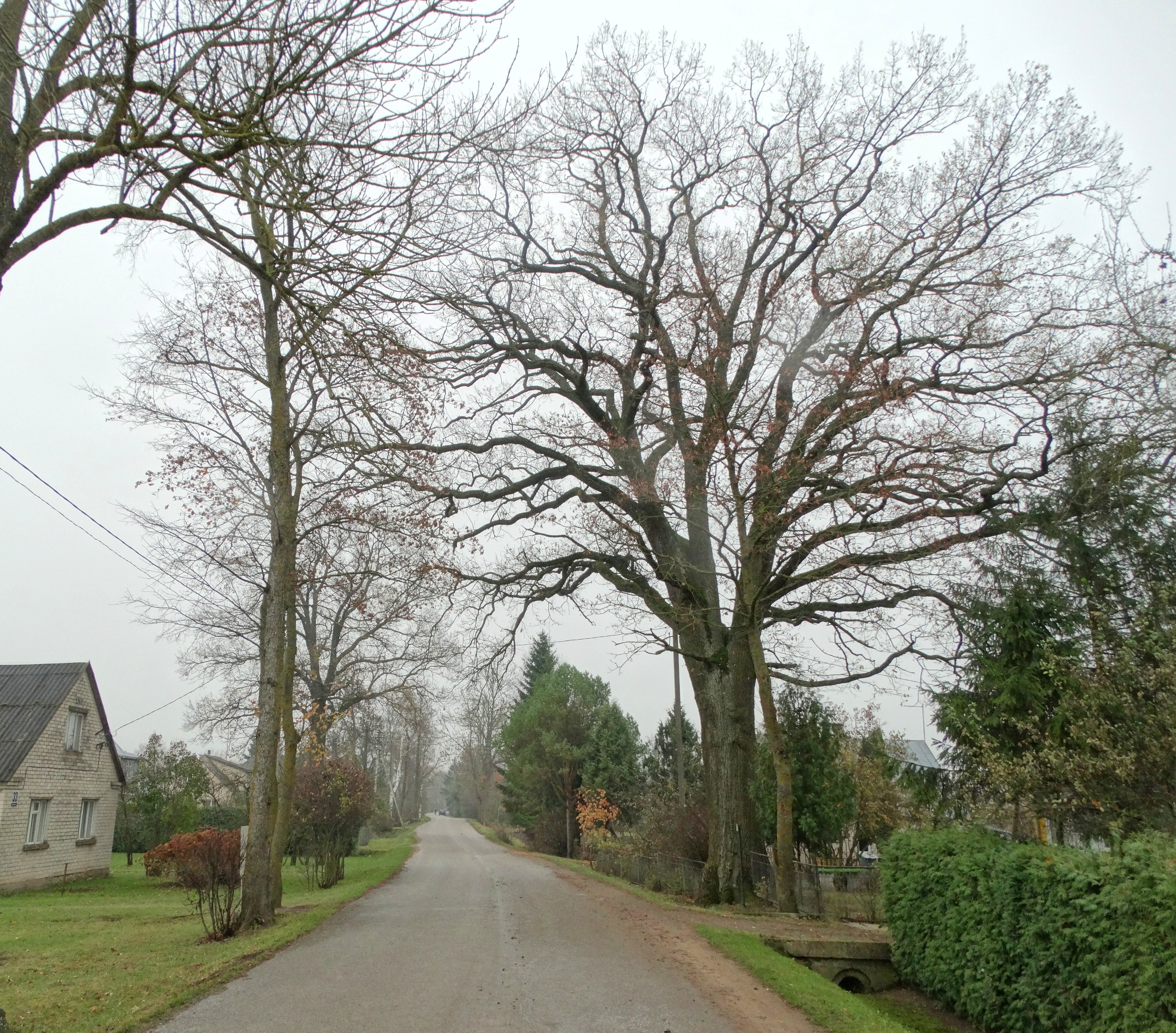 Oak tree in Titkoniai, Pasvalys District, Lithuania